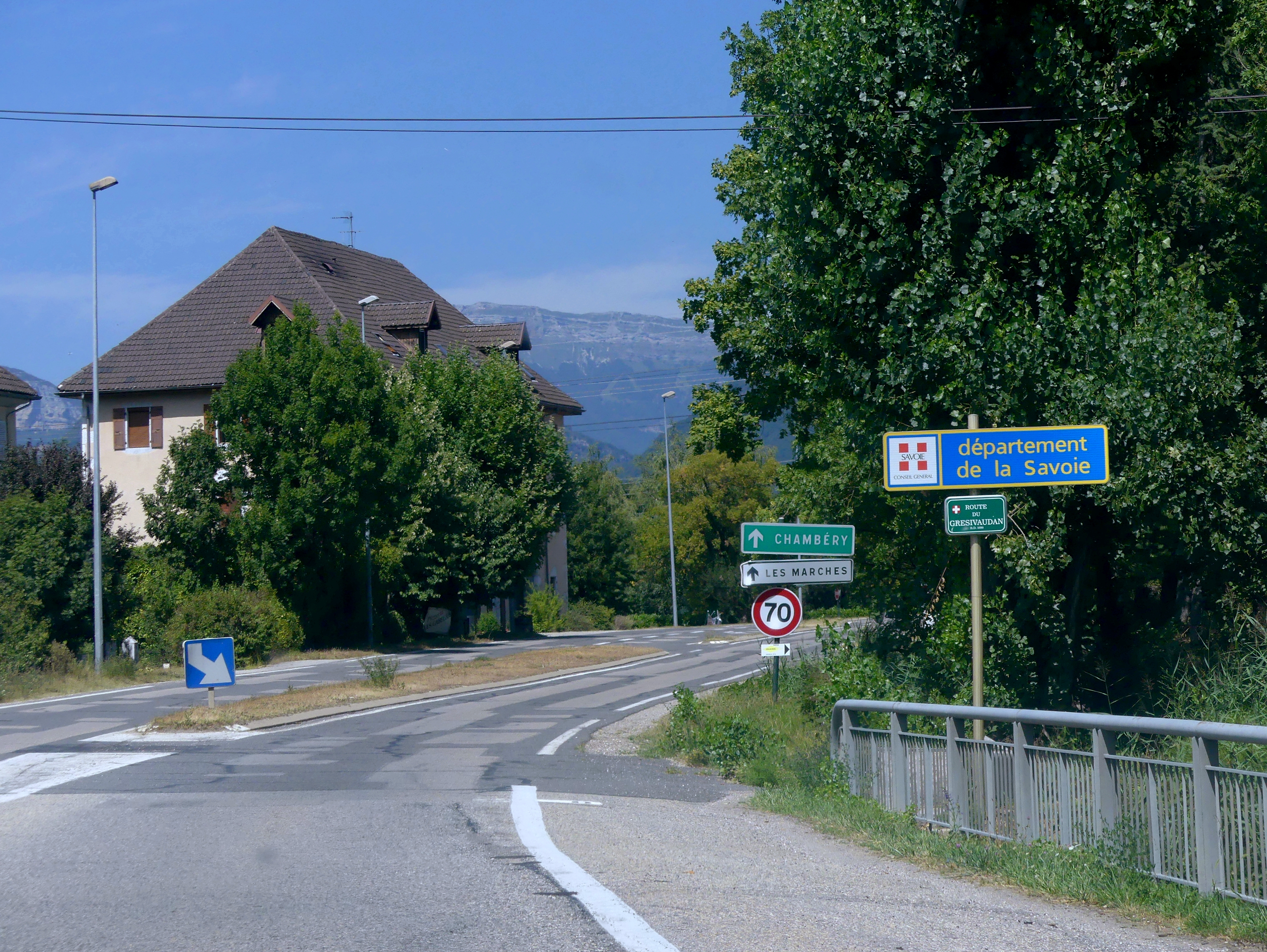 Sight of the welcoming road sign to Savoie when arriving from Grésivaudan valley in Isère, between Chapareillan (Isère) and Les Marches (Savoie), in France.